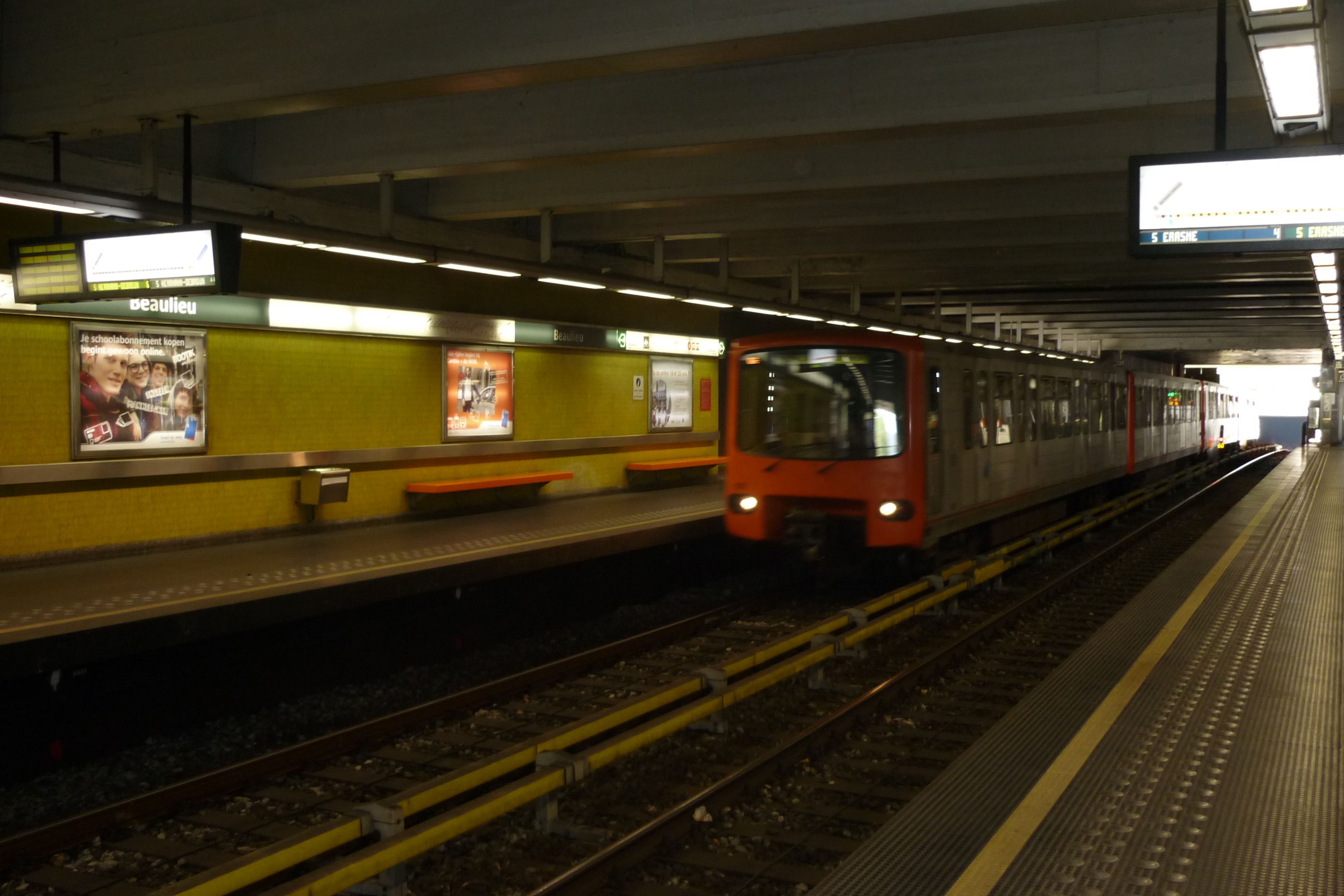 Underground station Beaulieu